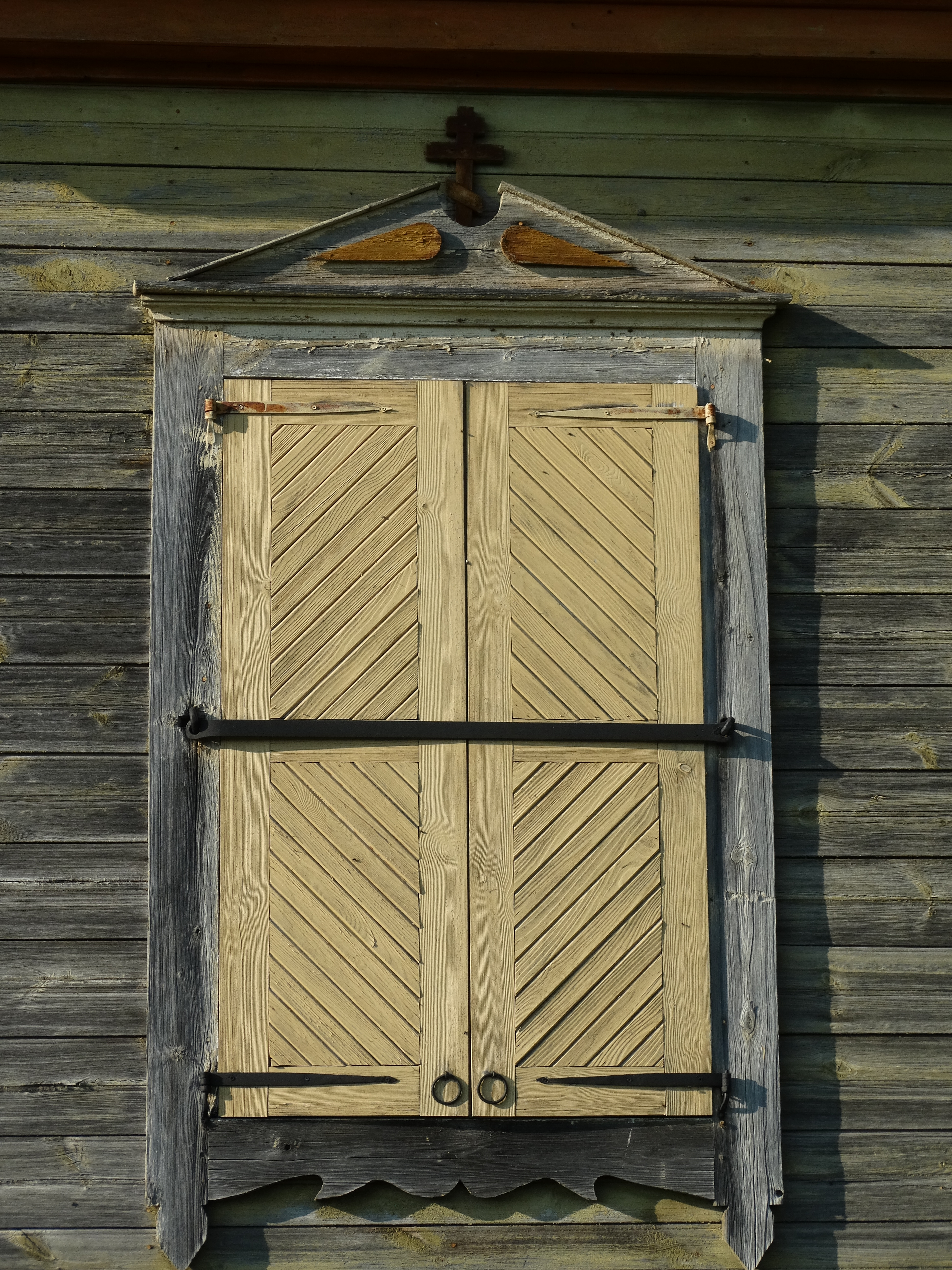 Window, Church of Old Believers in Rūsteikiai, Zarasai district, Lithuania